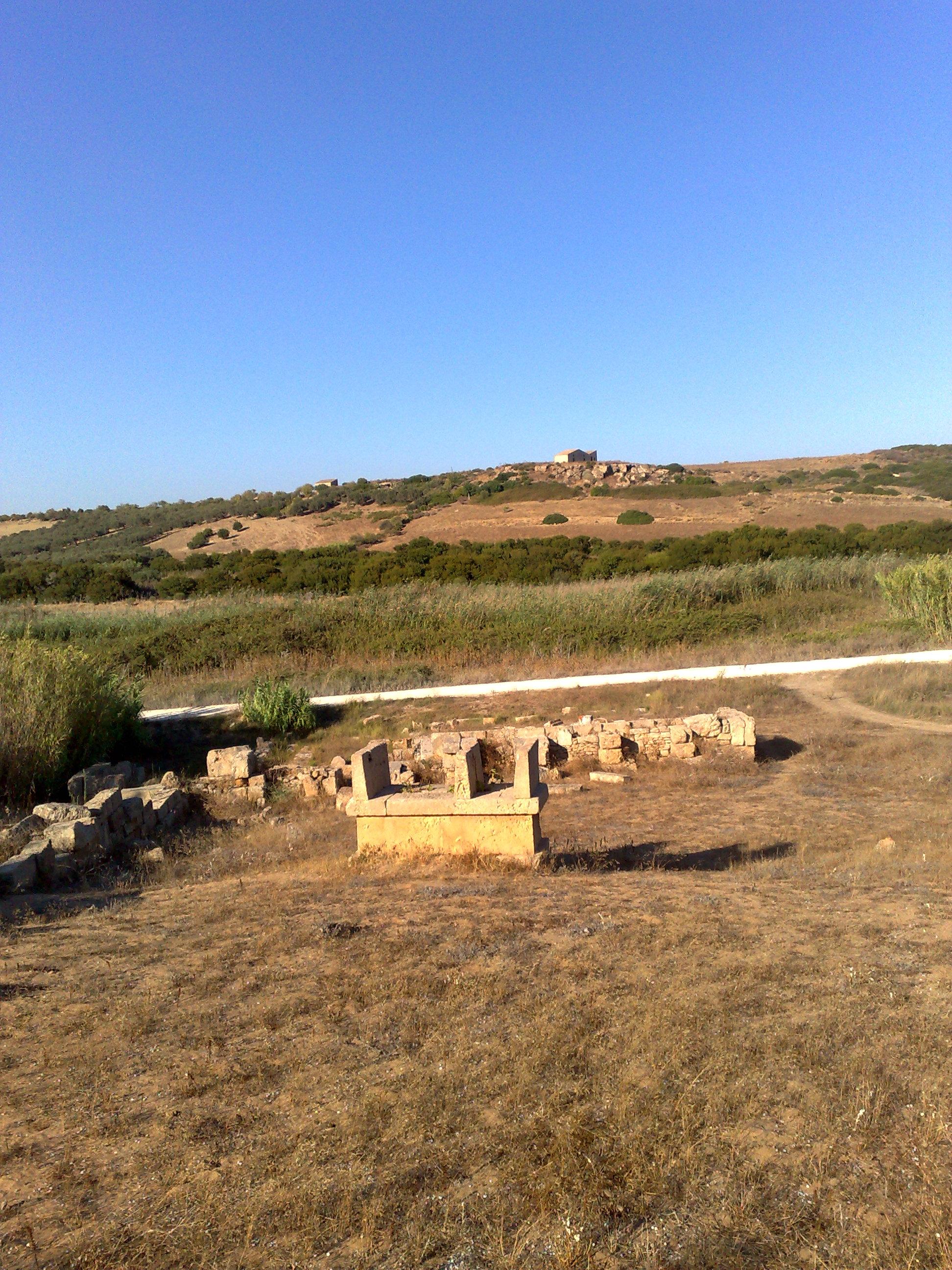 Selinunte Trapani: Sanctuary of Demeter Malophoros - Zeus Meilichios temple